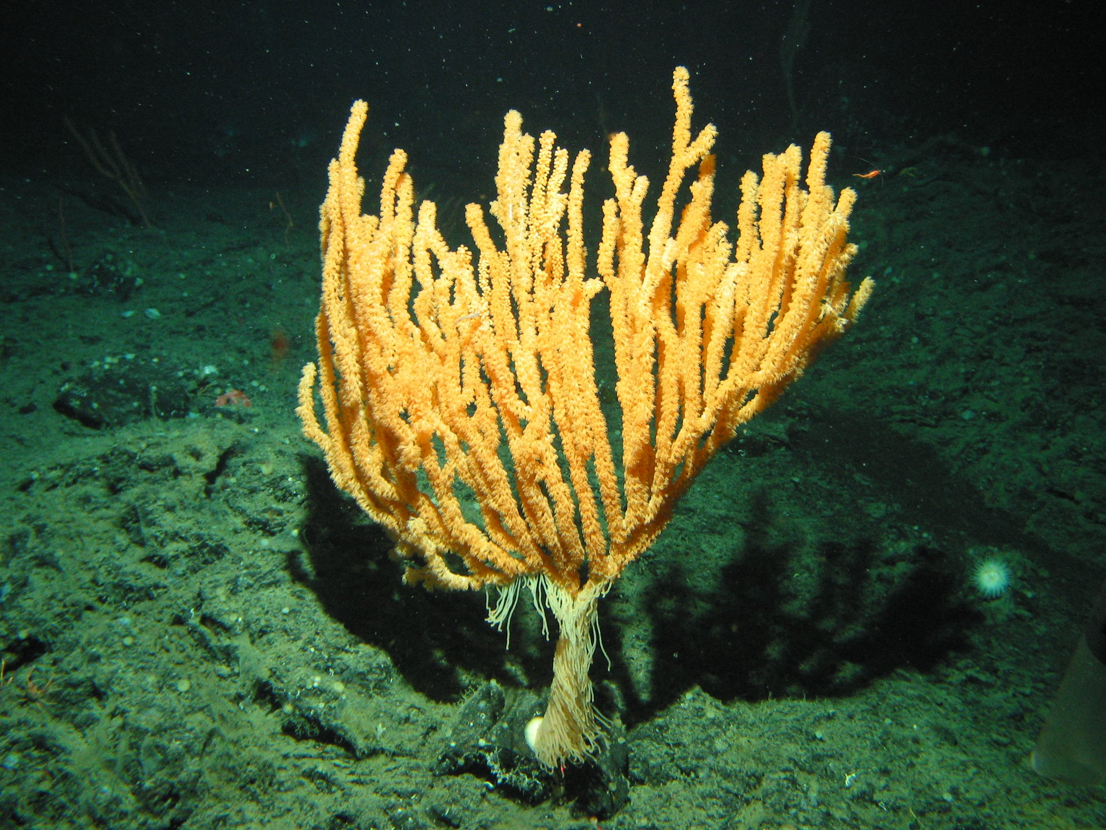 Gulf of Alaska Seamount Expedition. Large bamboo coral with galatheid crabs and sweeper tentacles on Dickins Seamount at 800 meters. Pacific Ocean, Gulf of Alaska.